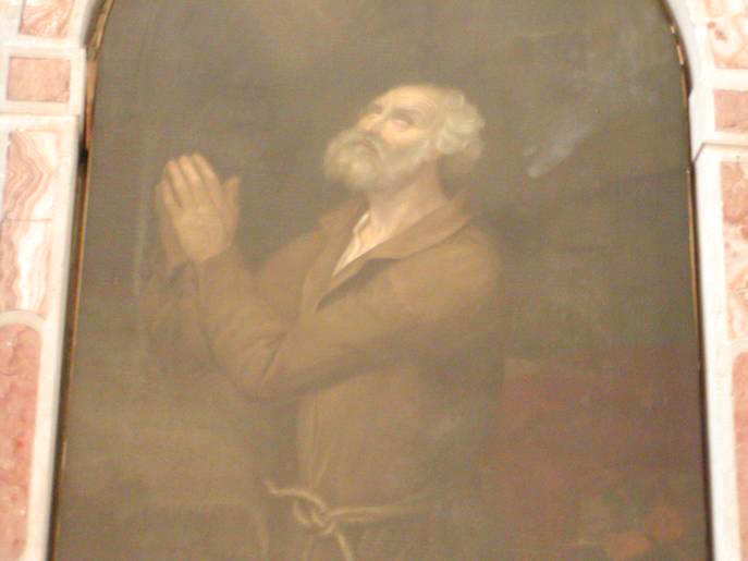 Anonymous painting with blessed Henry of Bolzano, in his oratory chapel at Biancada, Rancade, Italy